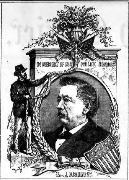 Sketch of General John B. Murray from Seneca County Courier, June 4, 1885